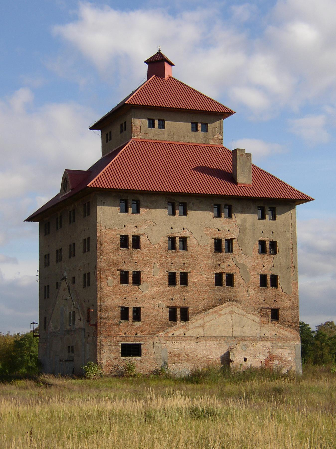 Former granary in Zepernick-Hobrechtsfelde in Brandenburg, Germany